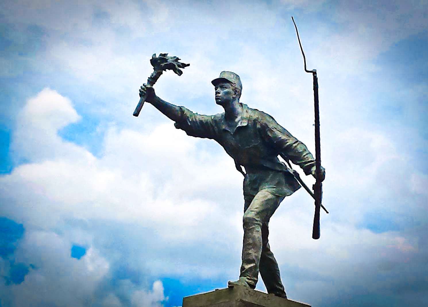 Juan Santamaría, Costa Rican hero of the "National Campaign" of 1856, who became famous and acclaimed for having immolated his life by burning the "Mesón de Guerra" (a old lodging place in Rivas, Nicaragua), in which they were the filibusters, enemy army of Costa Rica and Central America, with their action was able to take advantage and win the "Battle of Rivas" on April 11, 1856.